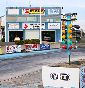 Woodburn's starting line.